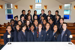 St Pats